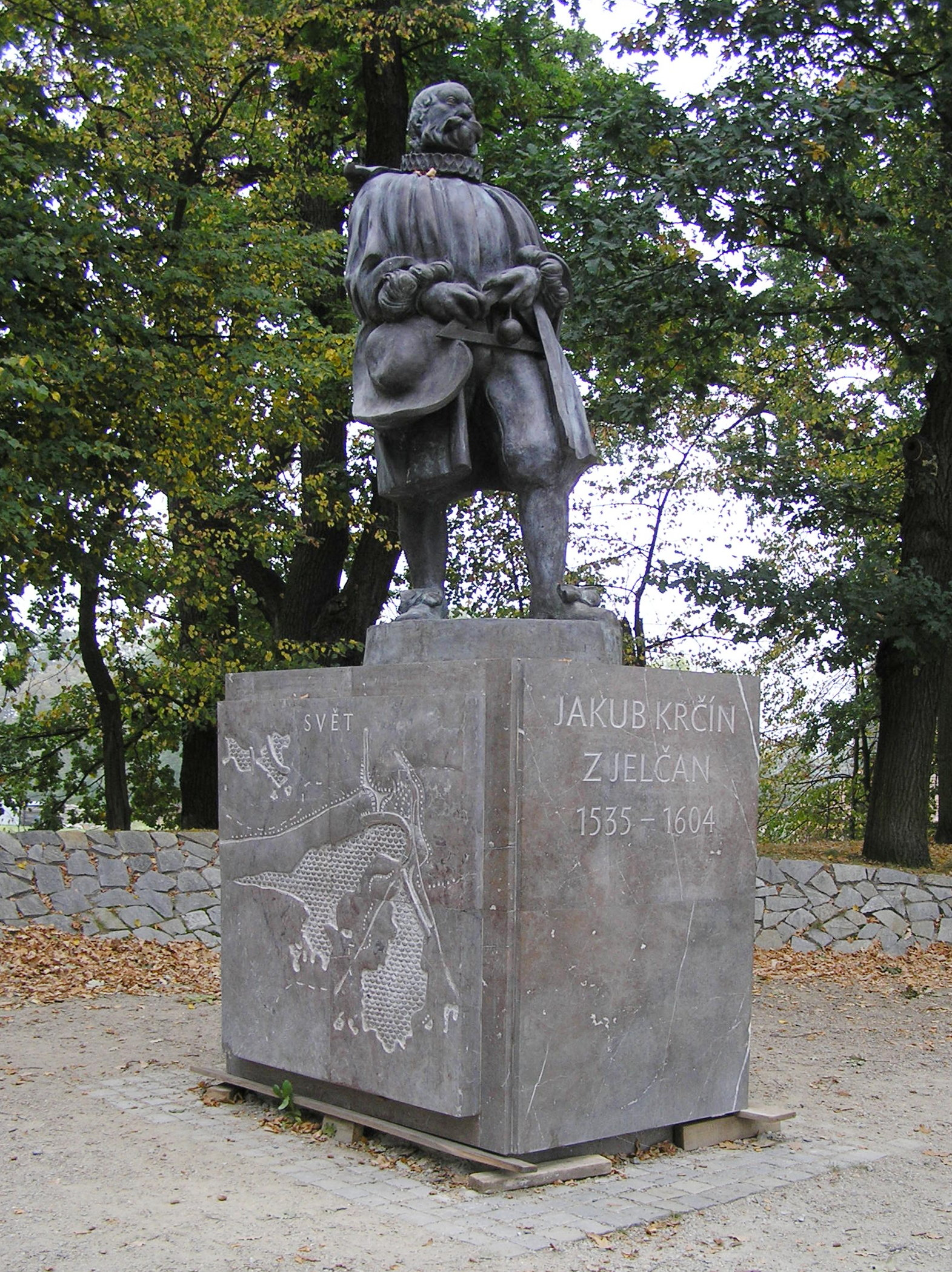 Statue of Jakub Krčín on dam of the Svět Pond near Třeboň, Czech Republic.